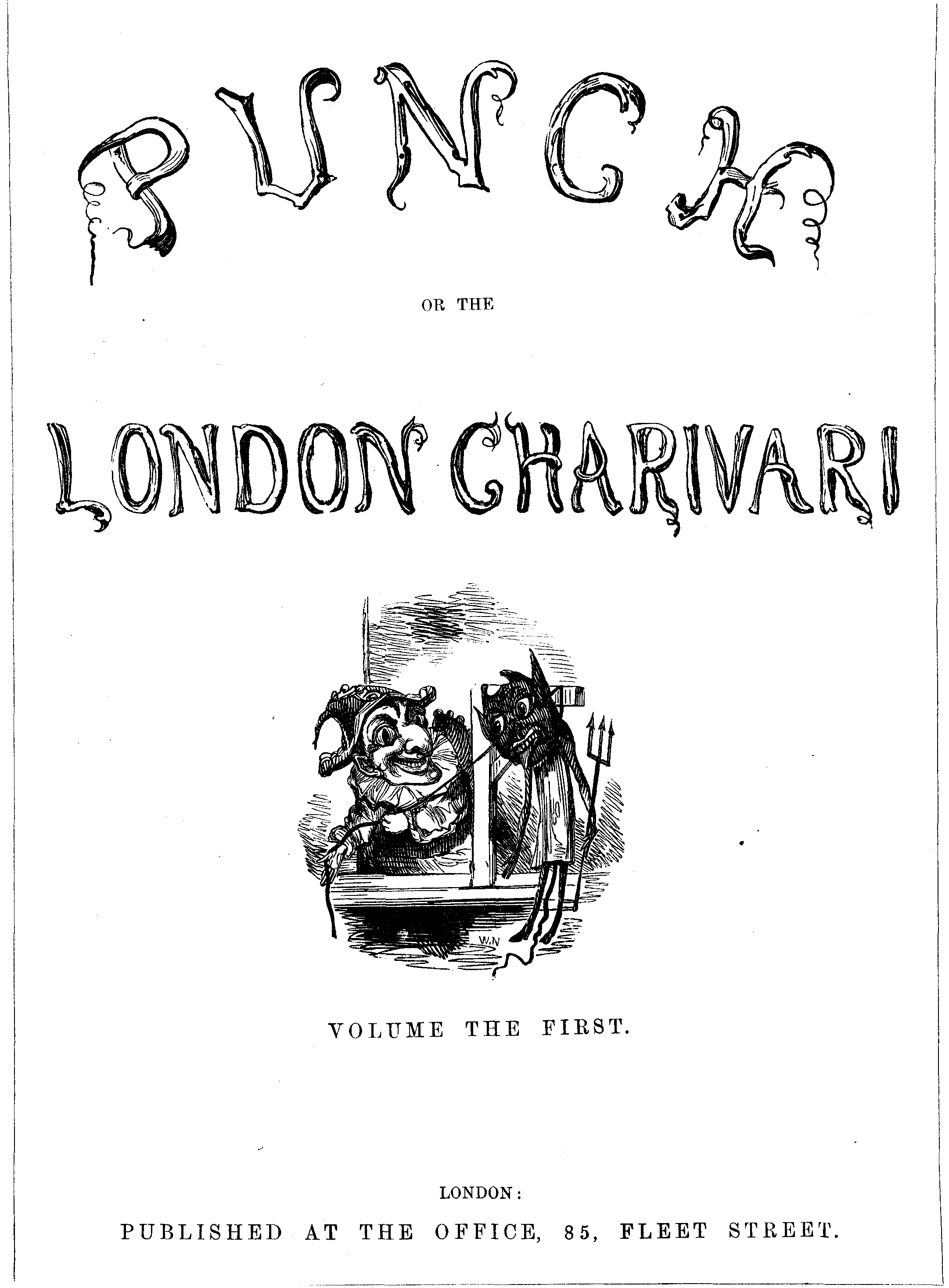 A scan of the cover of Punch magazine volume 1, published in London in 1841.